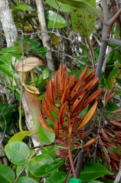 Nepenthes rafflesiana inflorescence